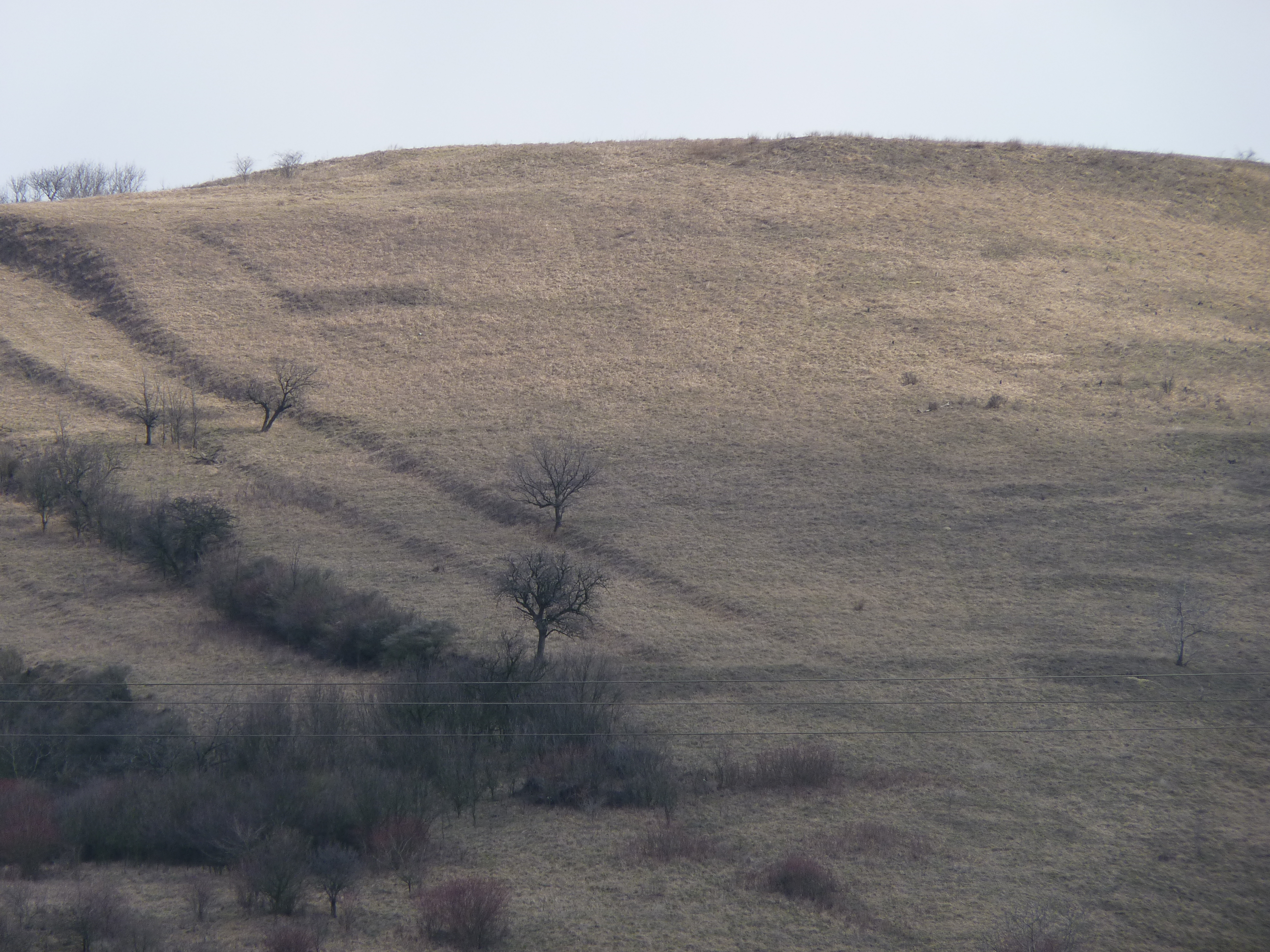 National nature reserve Pouzdřanská step, Břeclav District, South Moravian Region, Czech Republic Project: Chráněná území